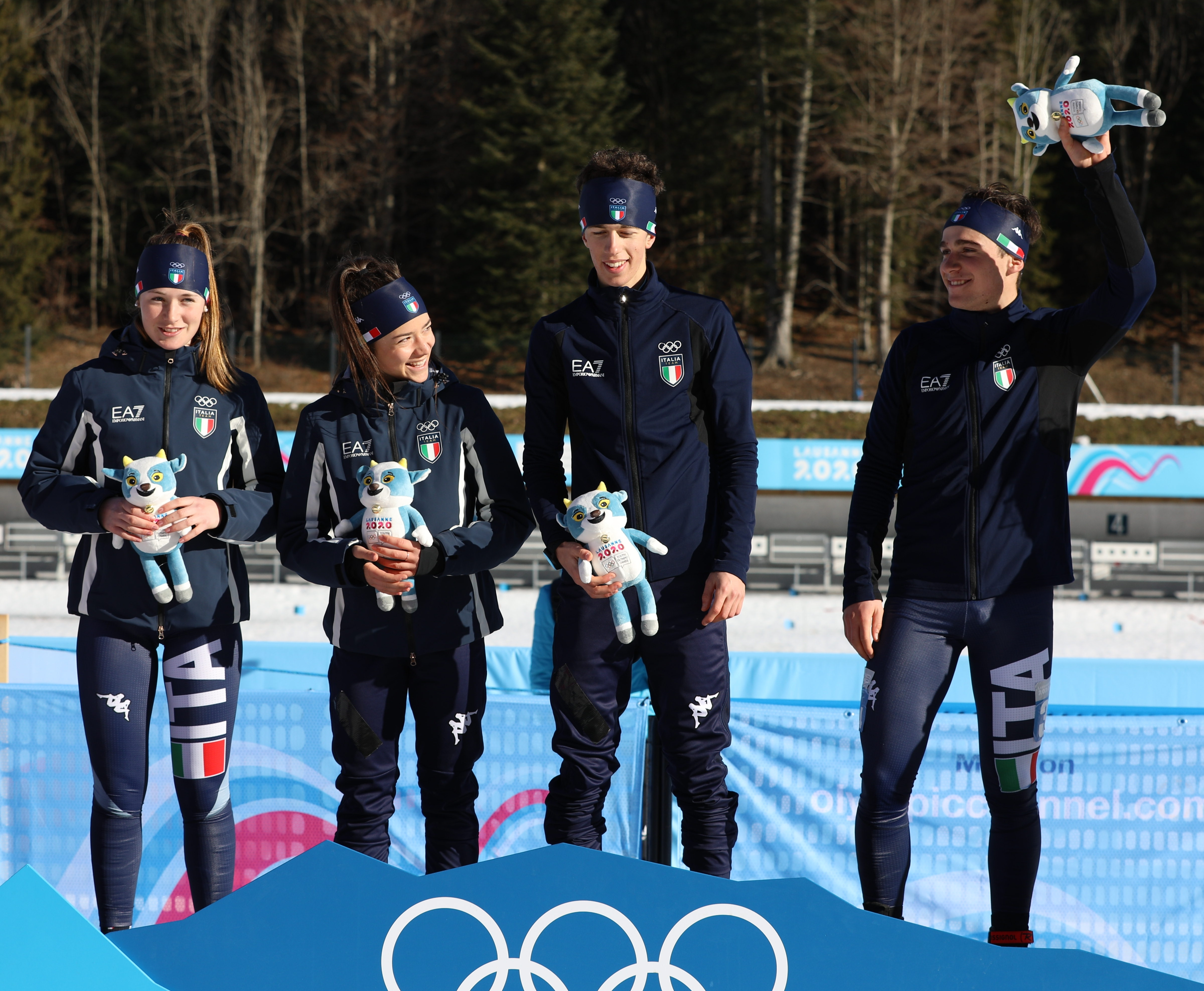 Mascot Ceremony of Mixed Relay of Biathlon at the 2020 Winter Youth Olympics in Lausanne on 15 January 2020.